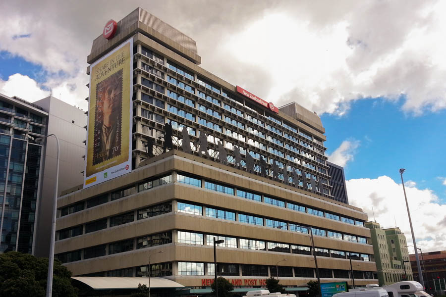 The New Zealand Post office building, in central Wellington